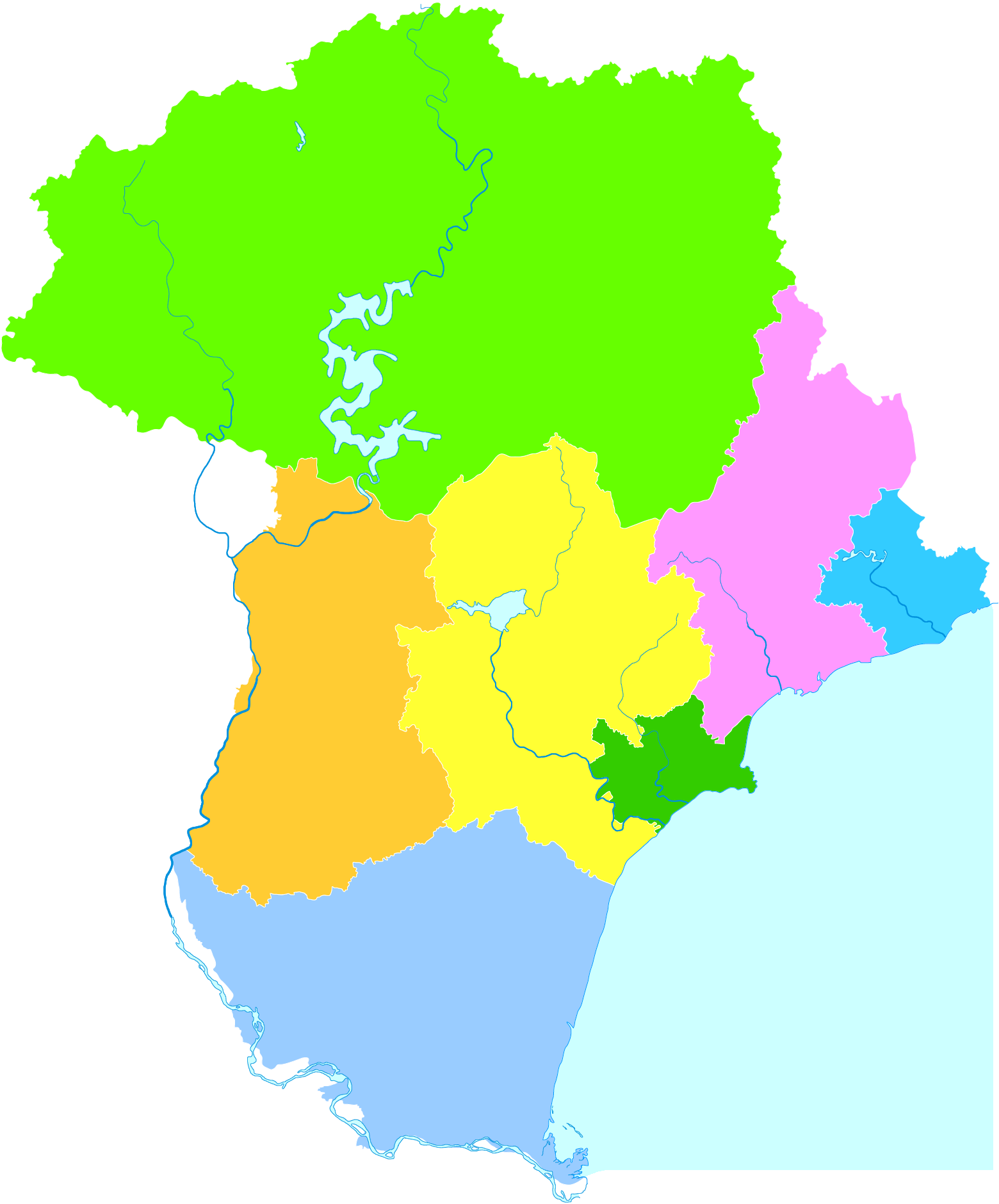 administrative divisions of Qinhuangdao City, Hebei, China